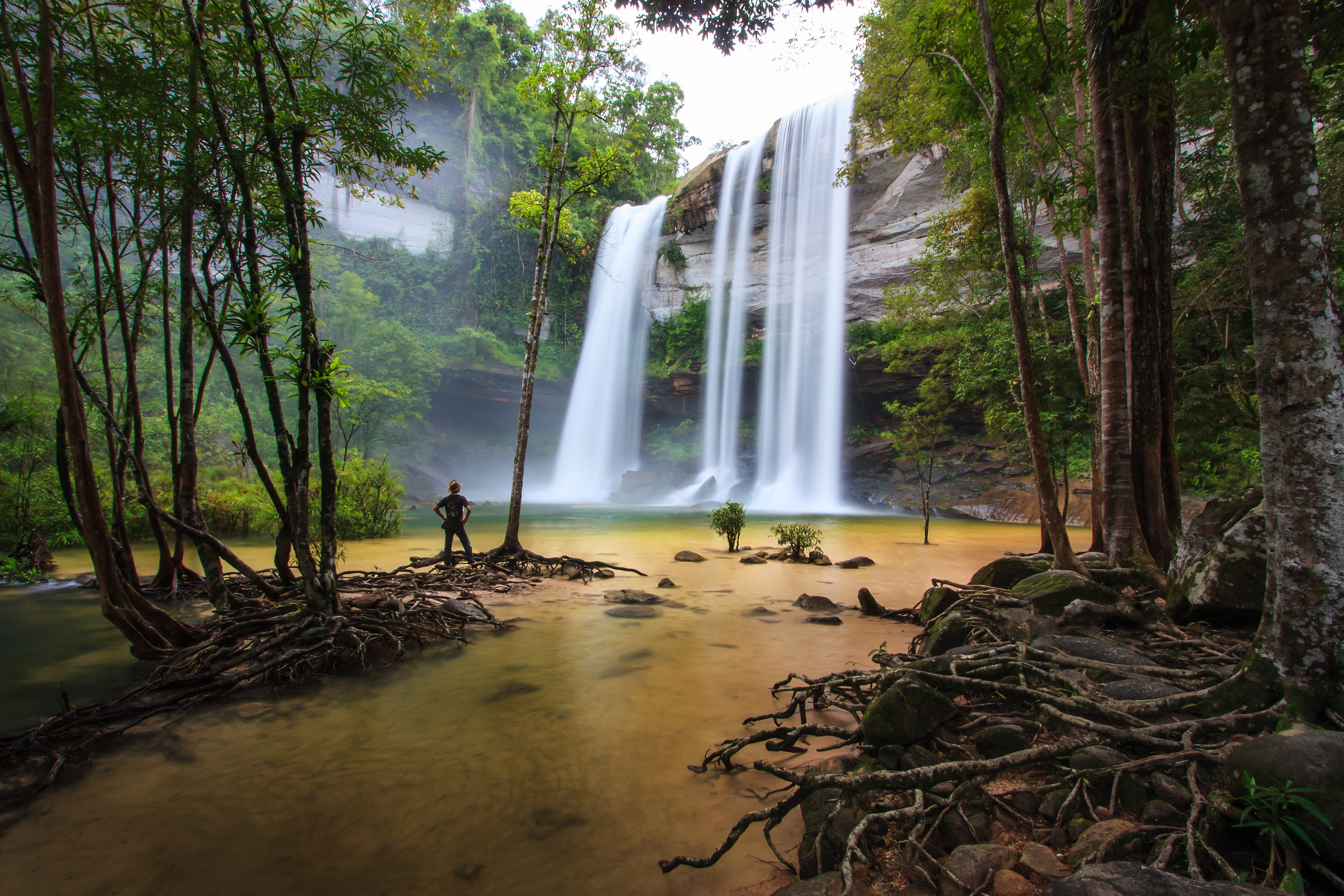 อุทยานแห่งชาติภูจองนายอย